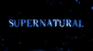 The title card for the sixth season of the television series Supernatural.